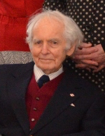 Official party at a reception for the Katherine Mansfield Birthplace Trust, at Government House, Wellington, on 14 October 2013. Standing, left to right: Greg Thomas; Celia Wade-Brown; Alaistair Nicholson; Laurel Harris; Lynda Graham; Nichola Saker; Emma Goodwin. Seated, left to right: Janine, Lady Mateparae; Sir Jerry Mateparae; Oroya Day; Melvin Day.